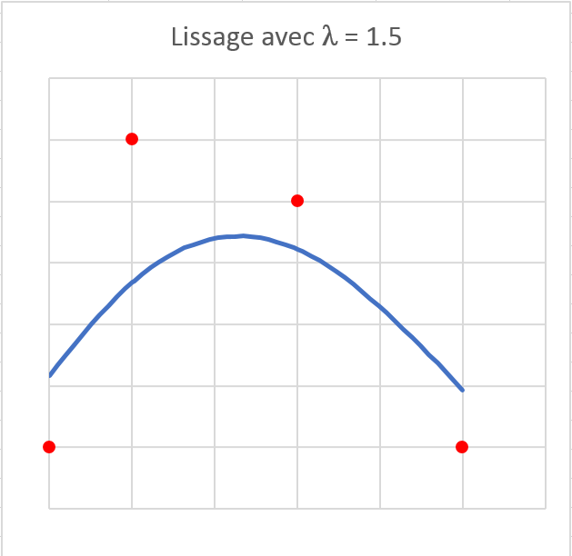 For four given points, we have drawn a cubic smoothing spline with the smoothing parameter Lambda = 1.5